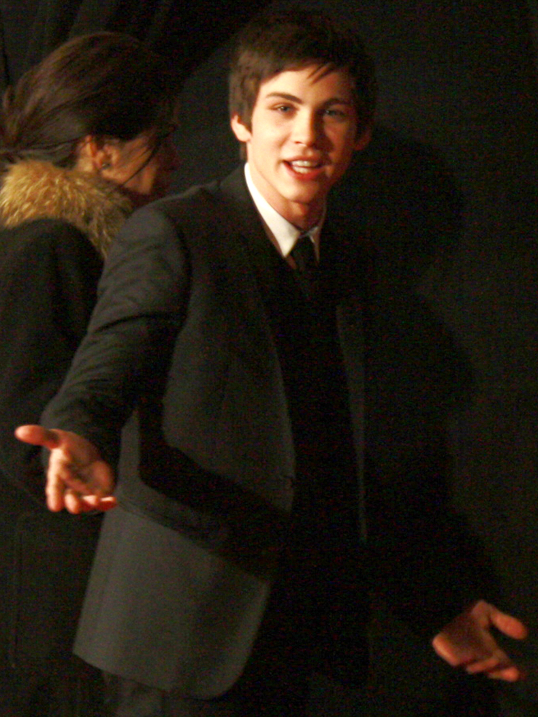 Actor Logan Lerman at the premiere of Percy Jackson and the Olympians: the Lightning Thief in New York City.